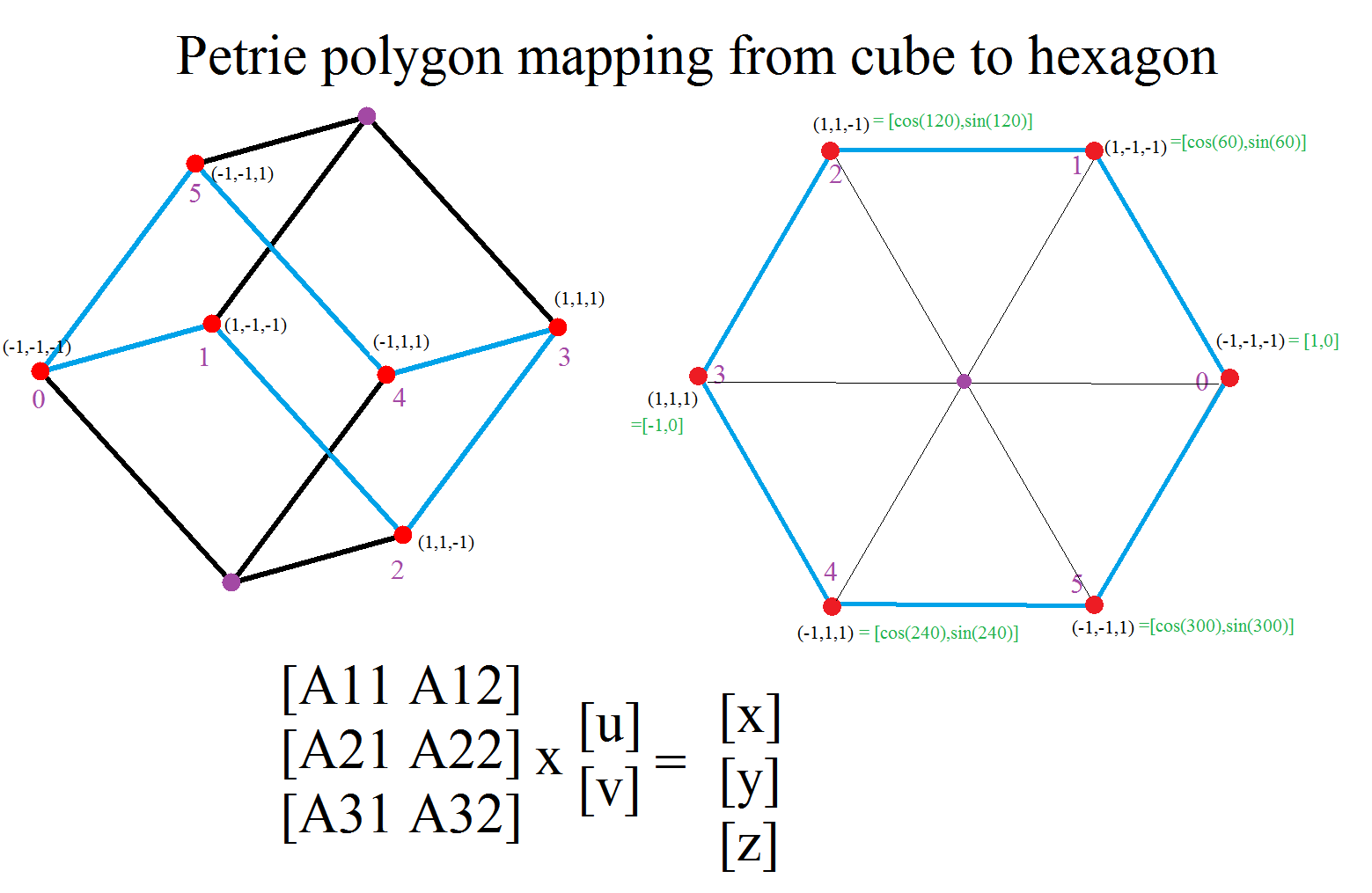 Petrie polygon for Cube